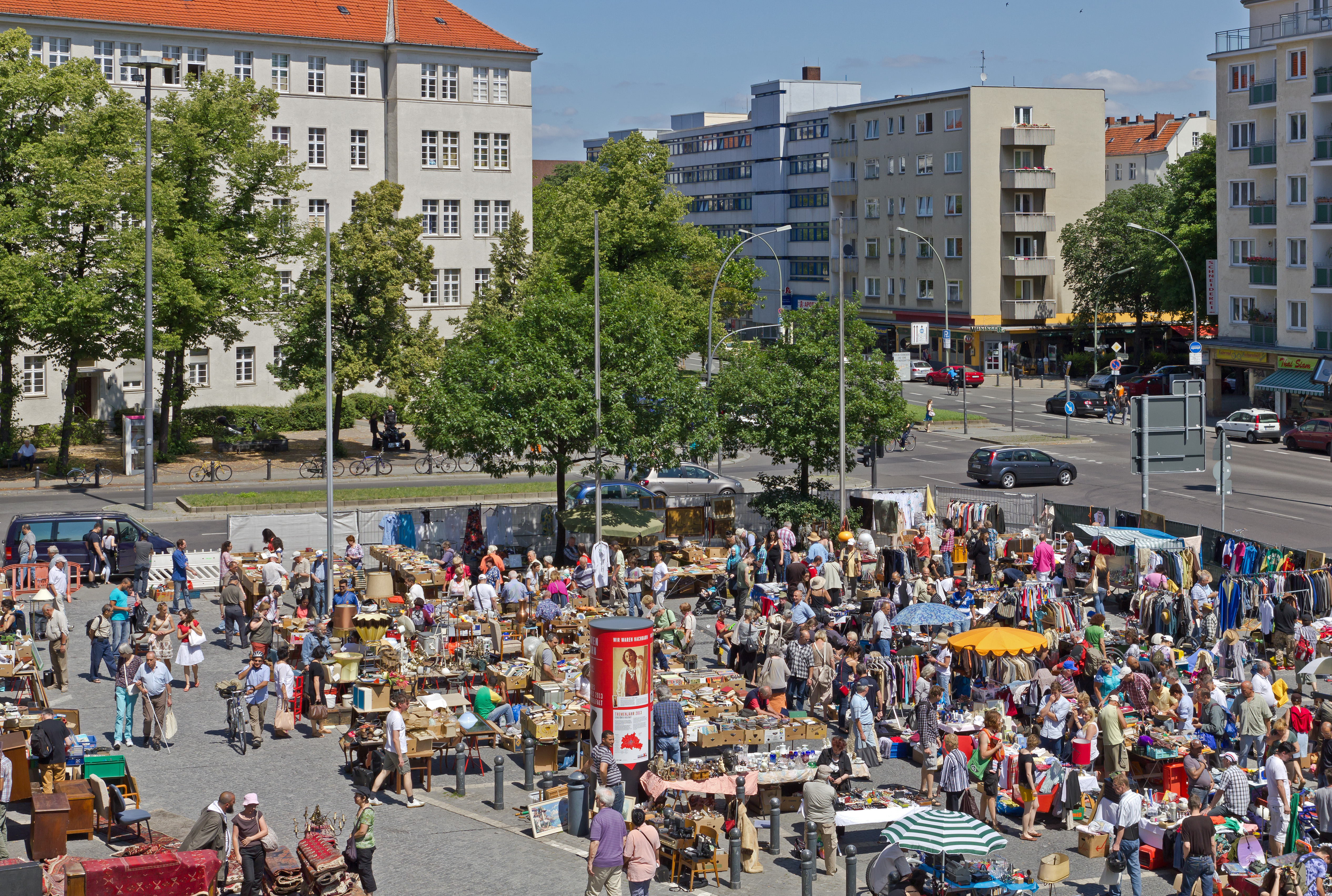 View to John F. Kennedy Square (with flea market) from the Town Hall of Berlin-Schöneberg